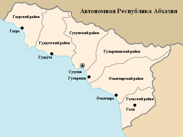 Map of Autonomous Republic of Abkhazia in Russian